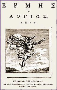 Cover of notable Greek literary publication of the early 19th, late 18th century. The magazine's name was Hermes ho Logios, Hermes the Scholar. This was one of the epithets applied to the God Hermes in Classical times. This issue is from 1817.